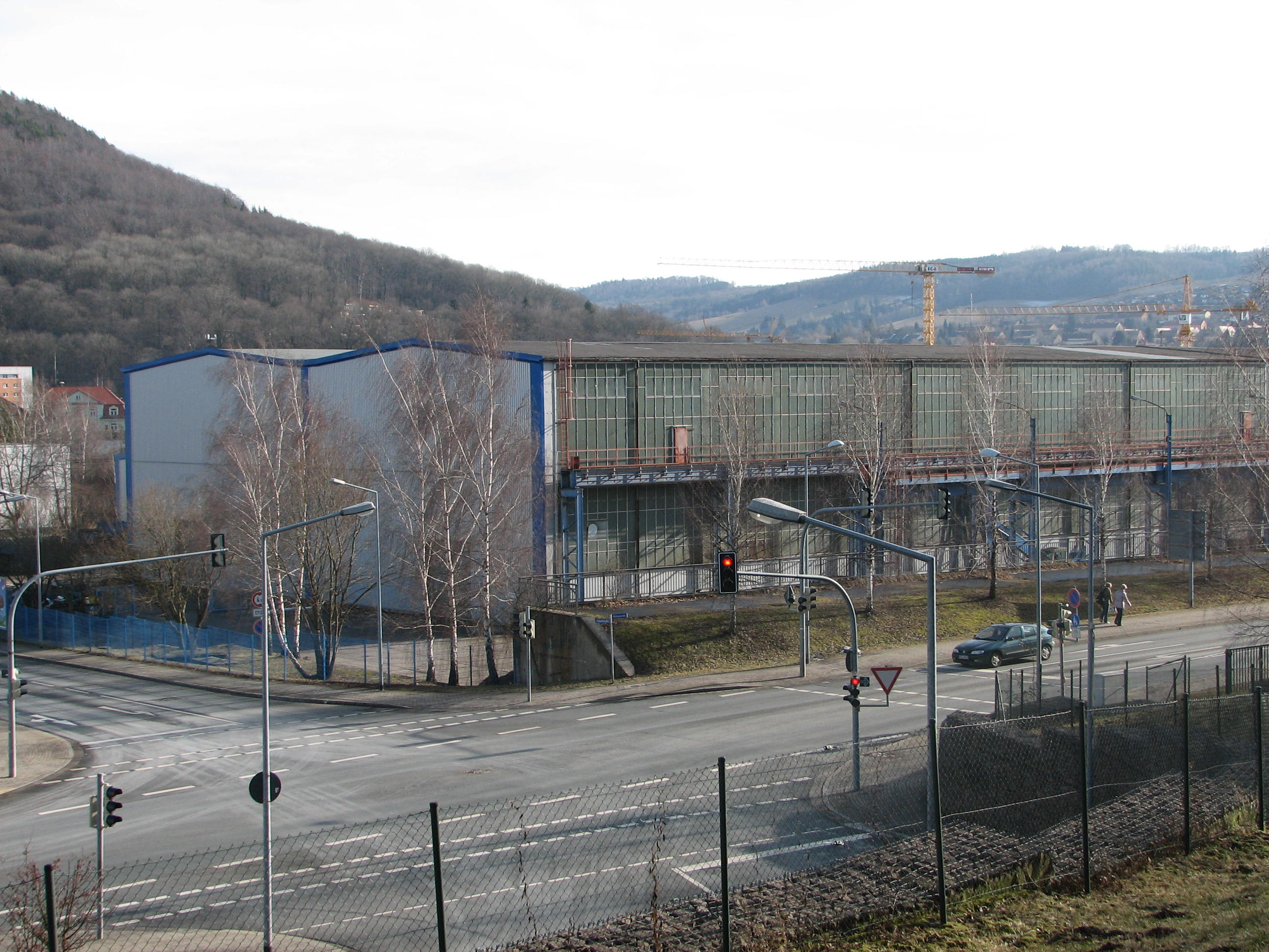 Storage facility of the Freital high-grade steel works. From 1880–1960 the site was occupied by a coal washer for the nearby mines. Just north of the coal washer was "Factory 93", a small uranium processing plant (1949–1960) of the soviet-owned Wismut AG. Uraniferous coal was leached with hydrochloric acid and shale with carbonate of soda. The final product was sodium diuranate for the Soviet Union. The slightly radio-active tailings of the filter presses were pumped into settling ponds behind the photographer. The cleared water was drained off to the Weisseritz. During the busy period 600 workers processed 2410t of raw materials.